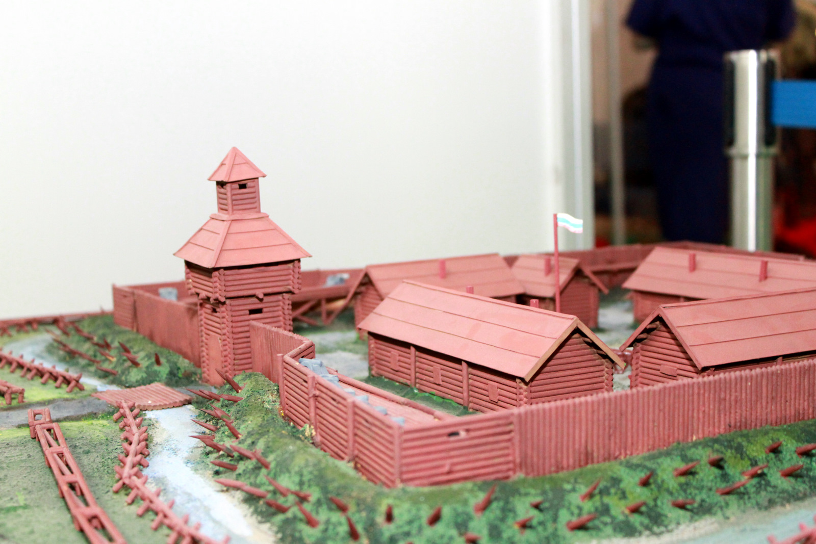 Losev redut